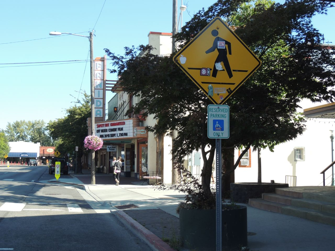 Area of the NRHP-listed Sandpoint Historic District in Sandpoint, Idaho. 300 Block of North First Avenue. The Panida Theater is visible.